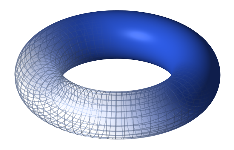 A simple torus fading out to a wireframe structure. Rendered using POV-Ray